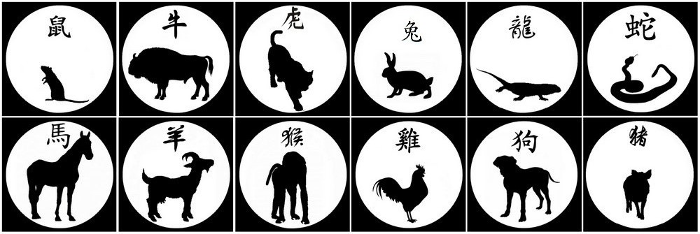 original Alice-astro picture with "rabbit" caracter corrected